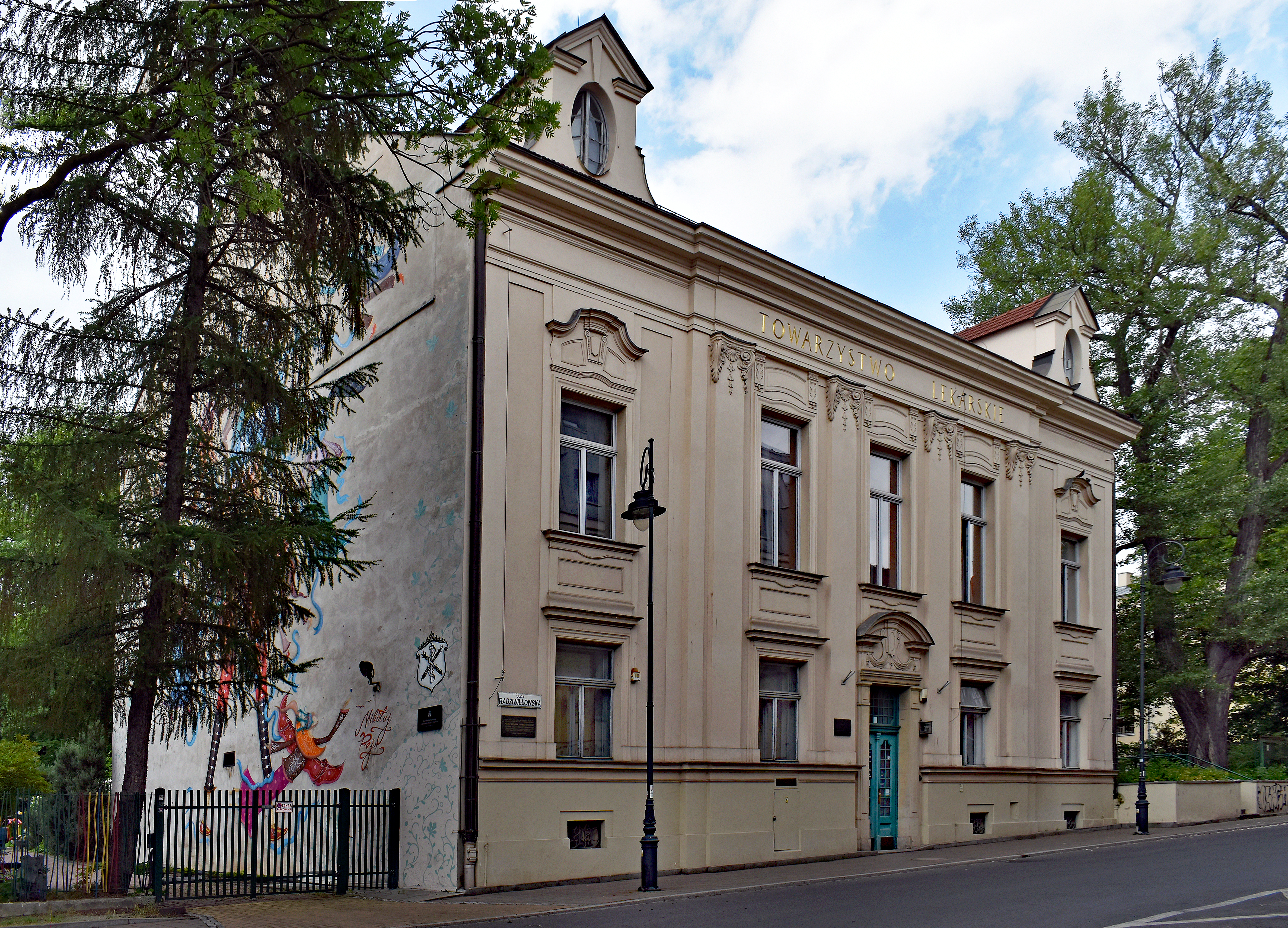 Cracow Medical Society house, 4 Radziwillowska street,Krakow,Poland